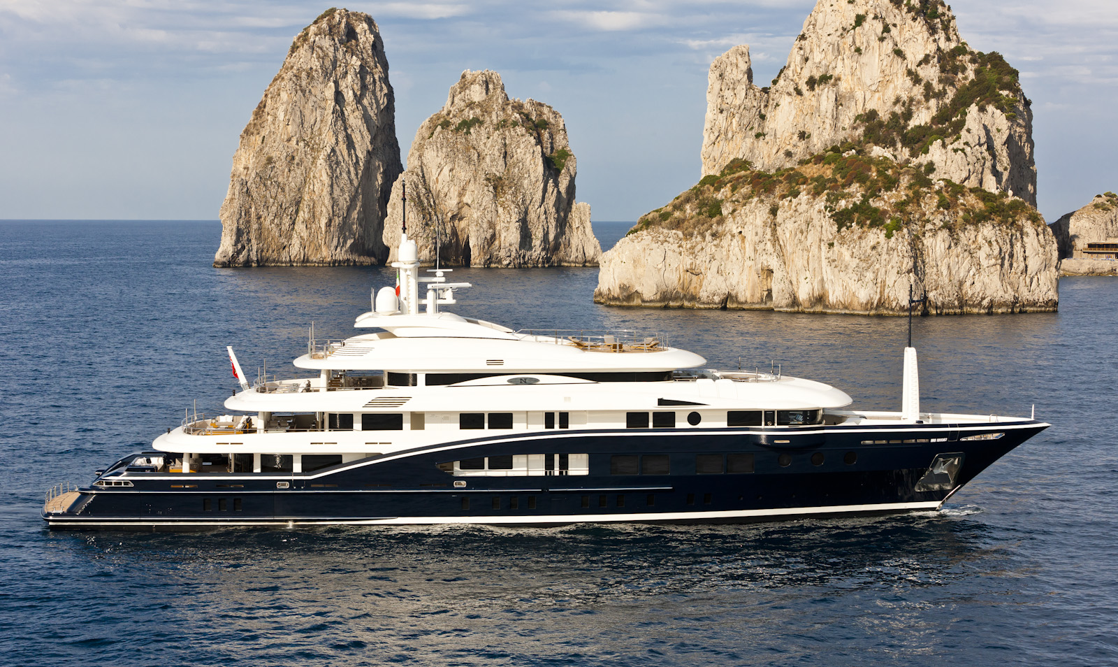 High Power III Rossi Navi